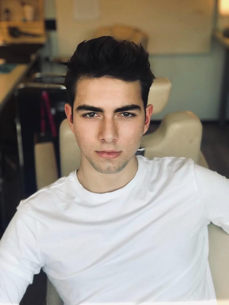 German actor, main character at 'dahoam is dahoam' , photo made at work from April 2019